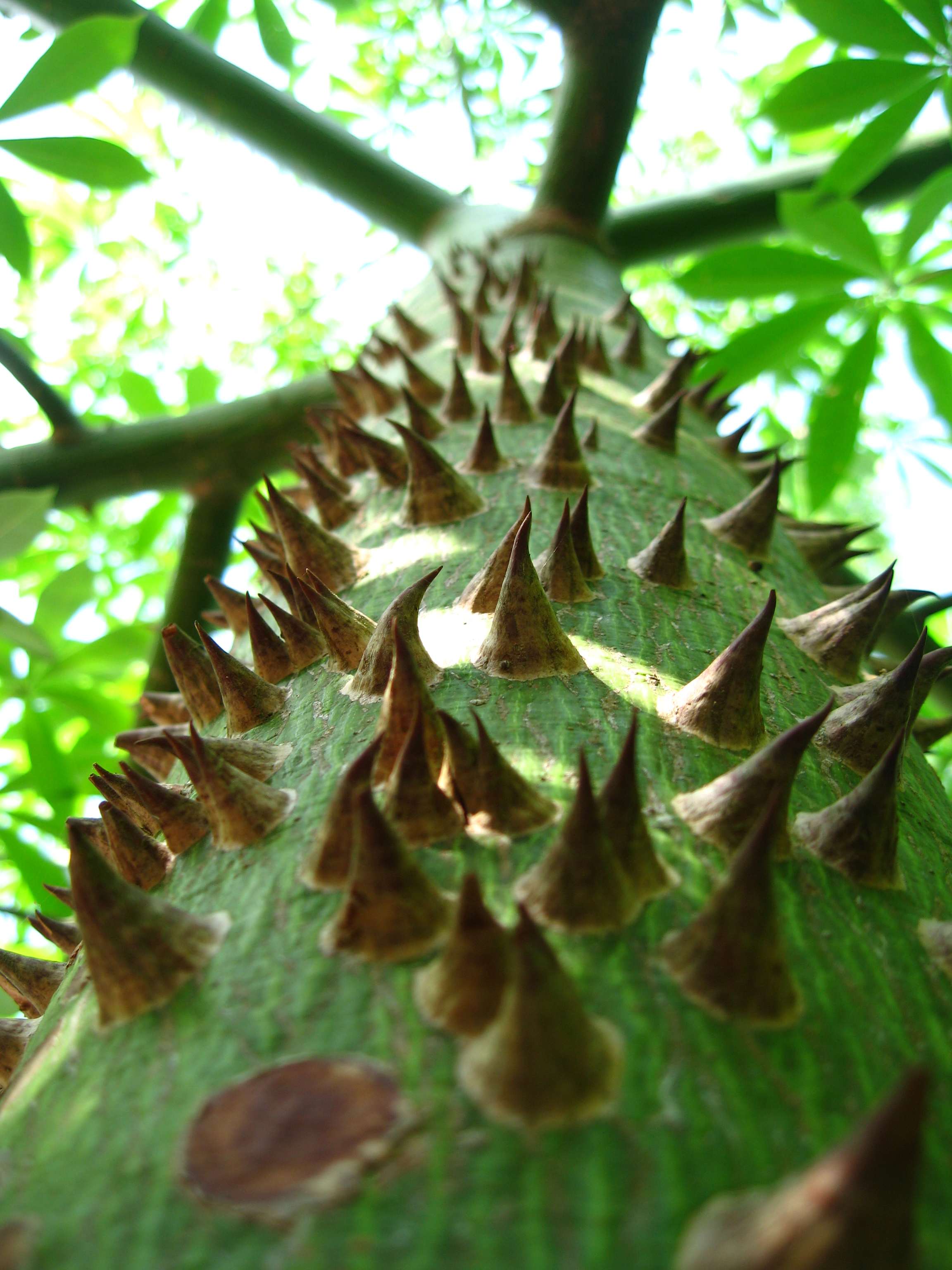 The Ceiba Tree was the sacred tree of the Mayans, and it had many representations and significances. According to , "The ancient Maya of Central America believed that a great Ceiba tree stood at the center of the earth, connecting the terrestrial world to the spirit-world above. The long thick vines hanging down from its spreading limbs provided a connection to the heavens for the souls that ascended them." Another cool science fact is that the boles of Ceiba trees are often tinted green by chlorophyll pigments that allow the tree's trunk to photosynthesize!